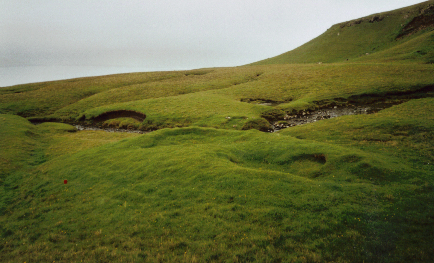 Ruins "Rannvátoftir" in Fagradalur Valley, Skúvoy. - Ruína de la cabana de Rannvá en el valle Fagradalur, isla de Skúvoy.